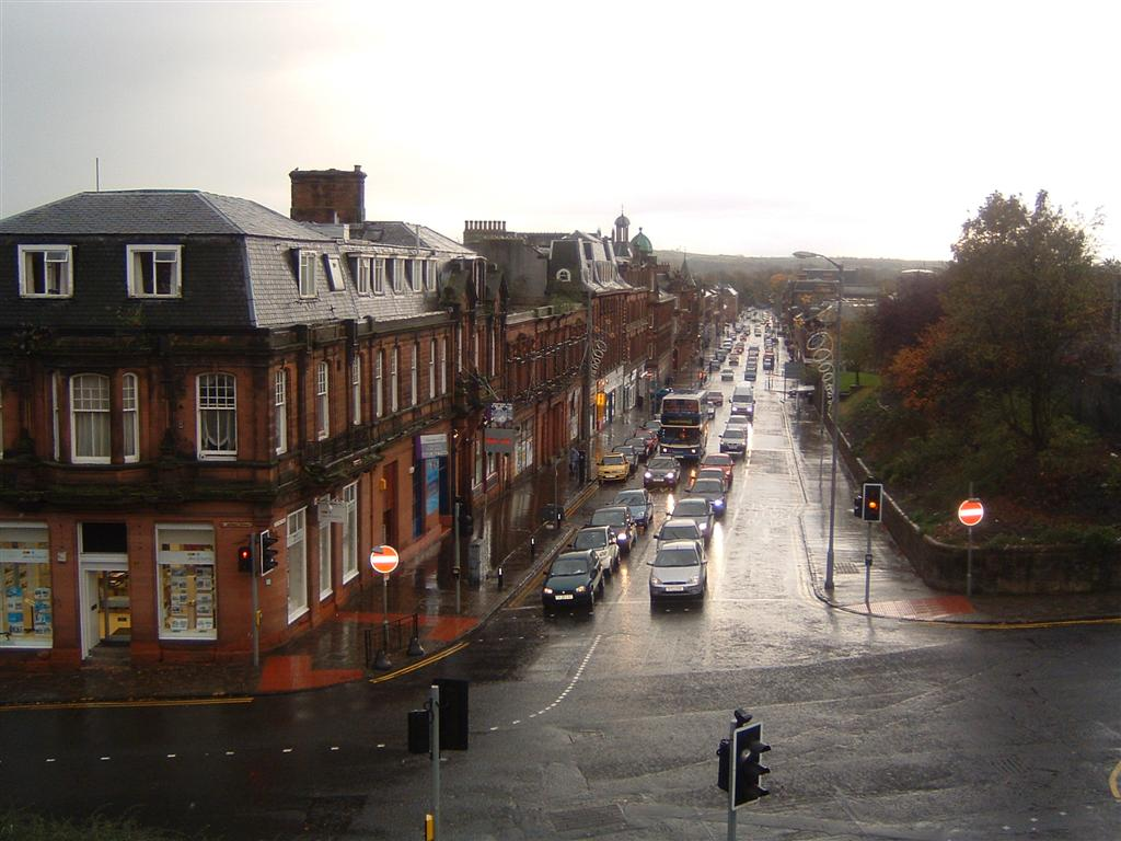 Description: View from Kilmarnock train station onto John Finnie Street. Source: private picture Date: Friday, 28. October 2005 Author: Jörn Albring Permission: albring